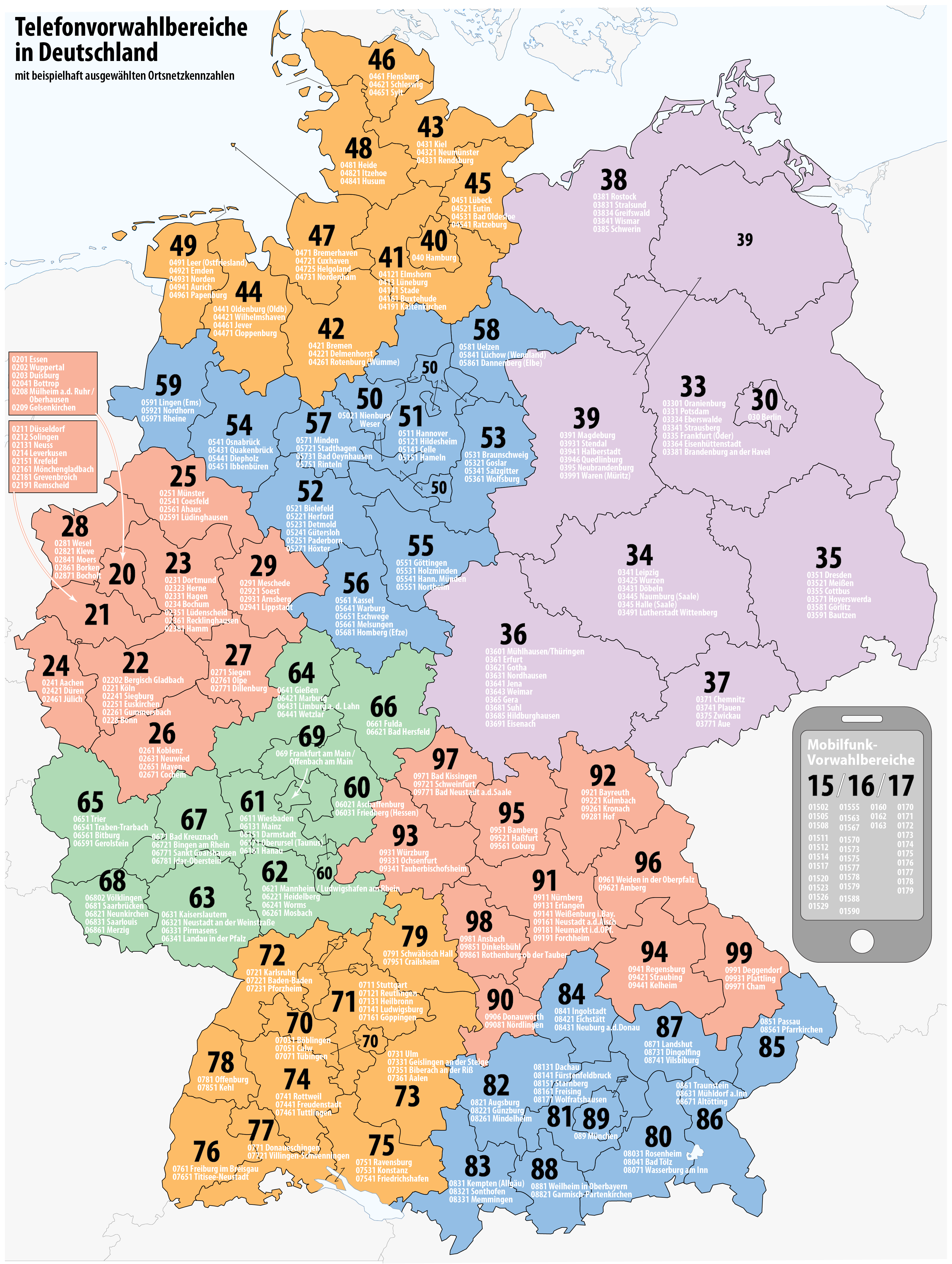 Map of the NDCs (National Destination Codes) of the telephone network of Germany